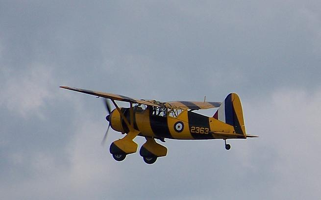 This is the recently restored Lysander of the Canadian Warplane Heritage Museum in Hamilton, Ontario Canada